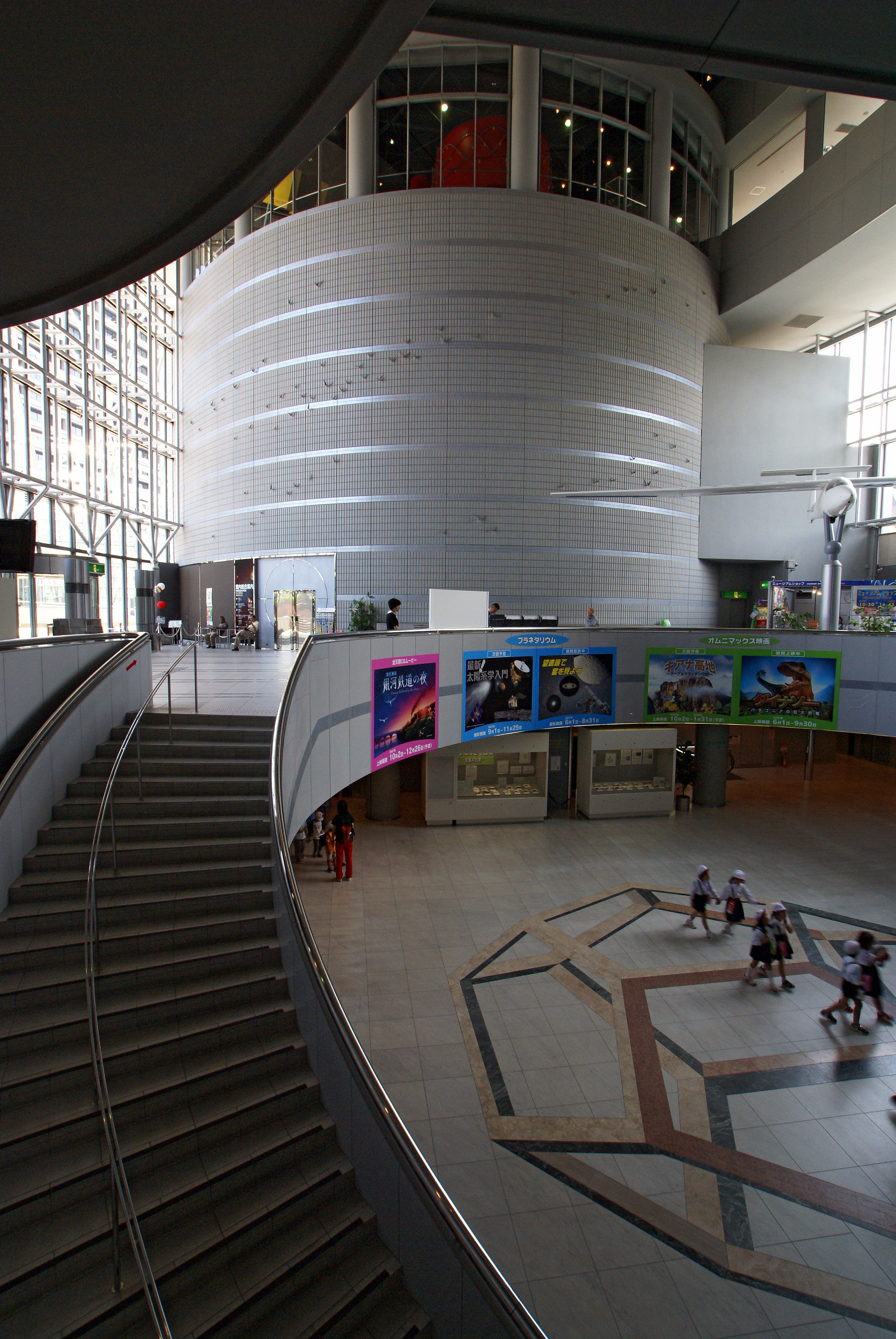 Osaka Science Museum in Osaka, Osaka prefecture, Japan